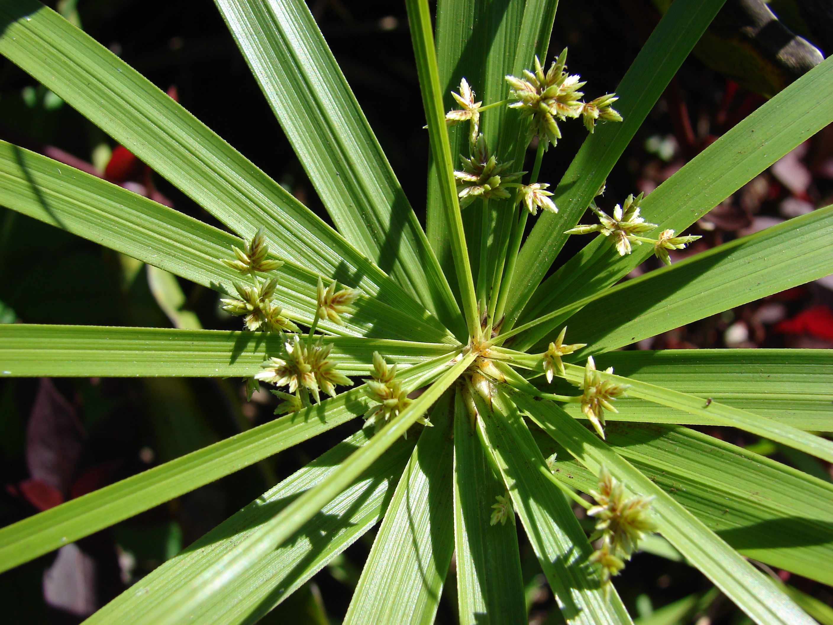 Cyperus involucratus (inflorescences). Location: Maui, Enchanting Floral Gardens of Kula